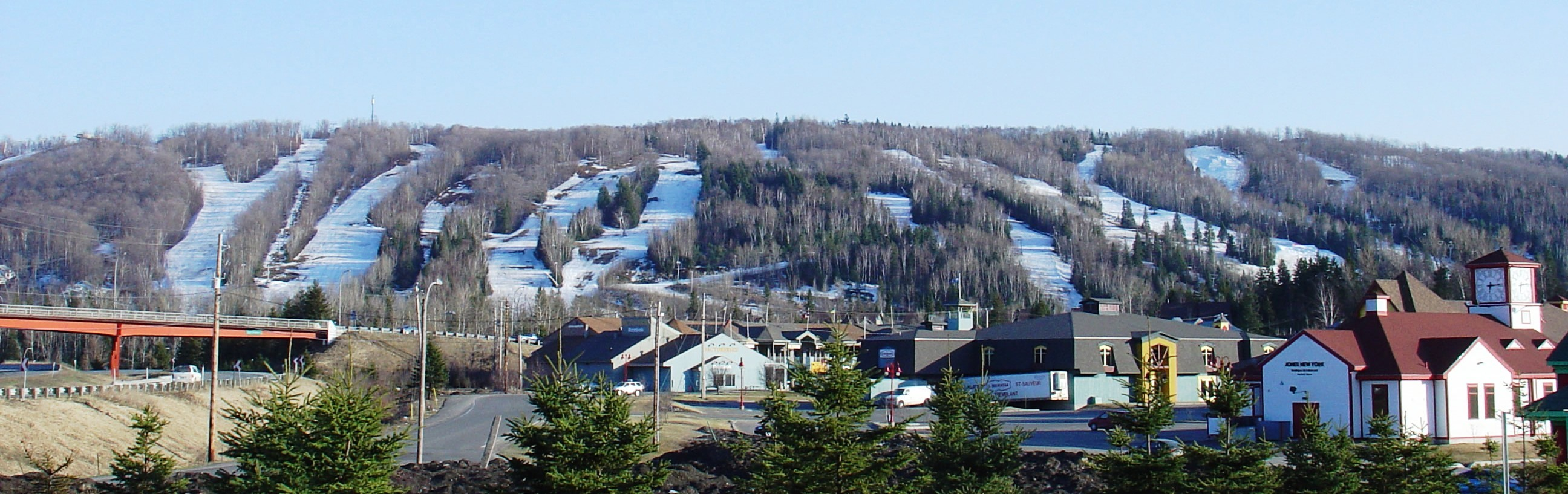 Picture of Saint-Sauveur, Quebec